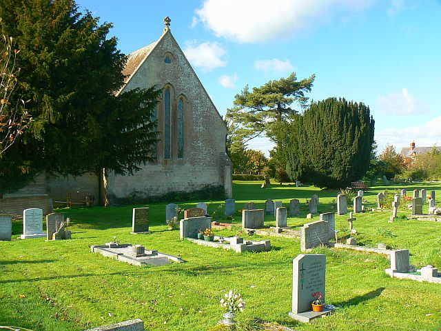 Christ Church and its churchyard, Broad Town The church is small and unpretentious. It probably dates from the mid 19th century. The church is run by women. The vicar and both church wardens are of the feminine persuasion.